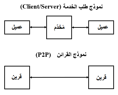 Comparison between Client/Server Model and Peer-to-Peer Model.